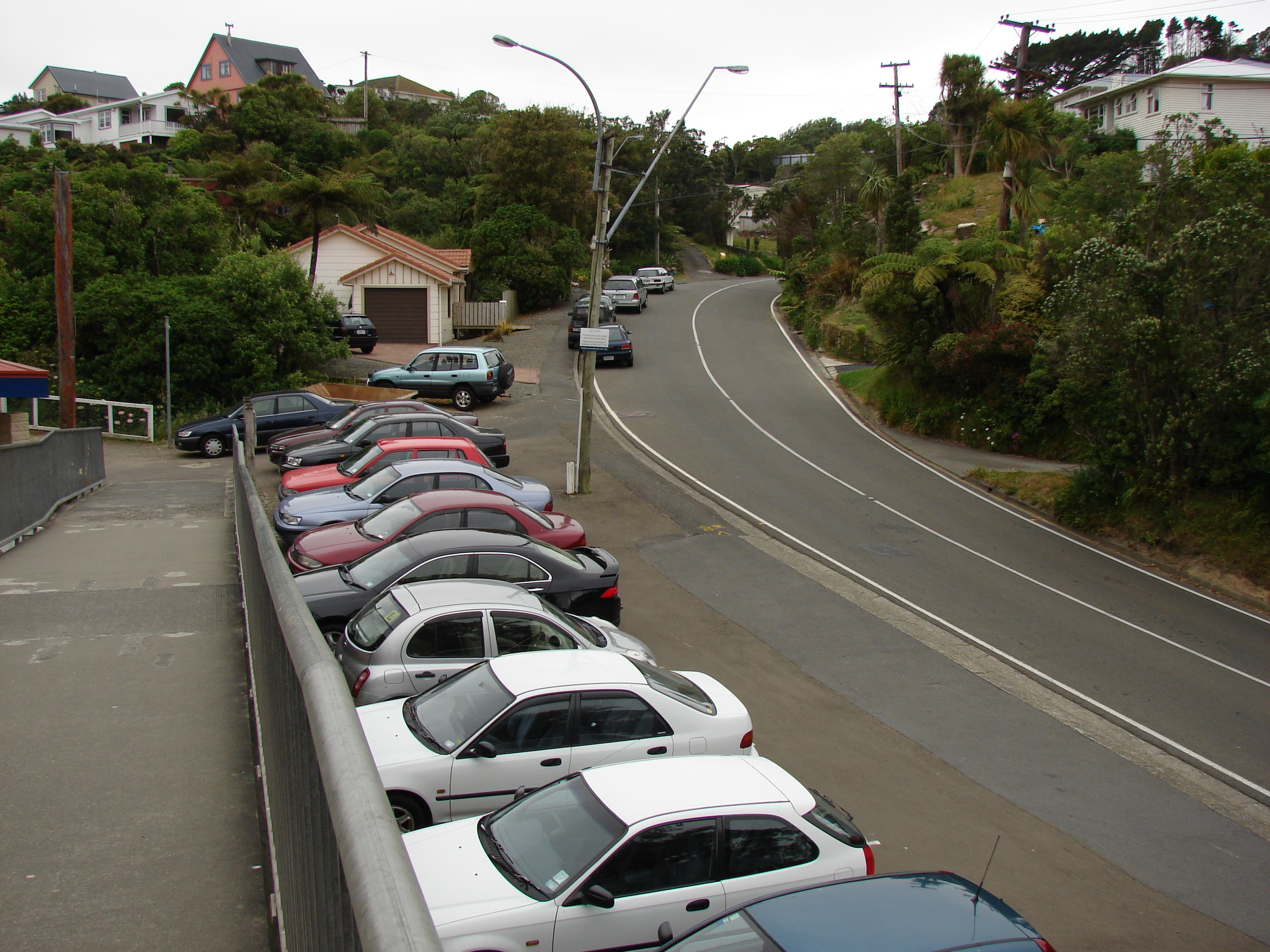 Raroa railway station car parking off Fraser Avenue. Photographed by Matthew25187 on 2007-12-17.